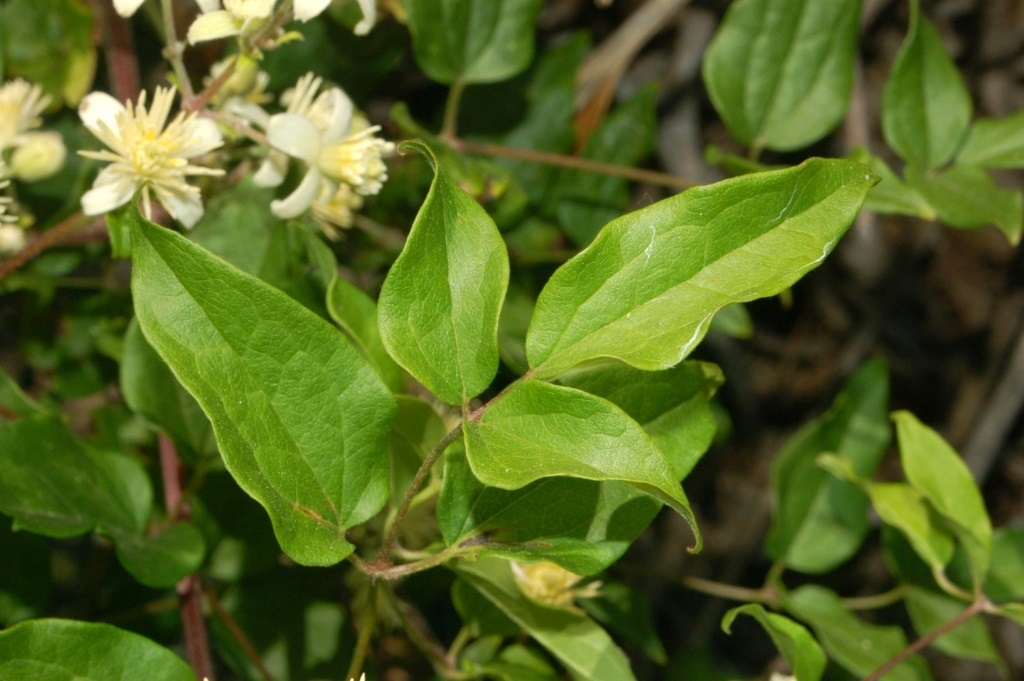 Clematis vitalba - Pian dei Grilli, Genova, Italy